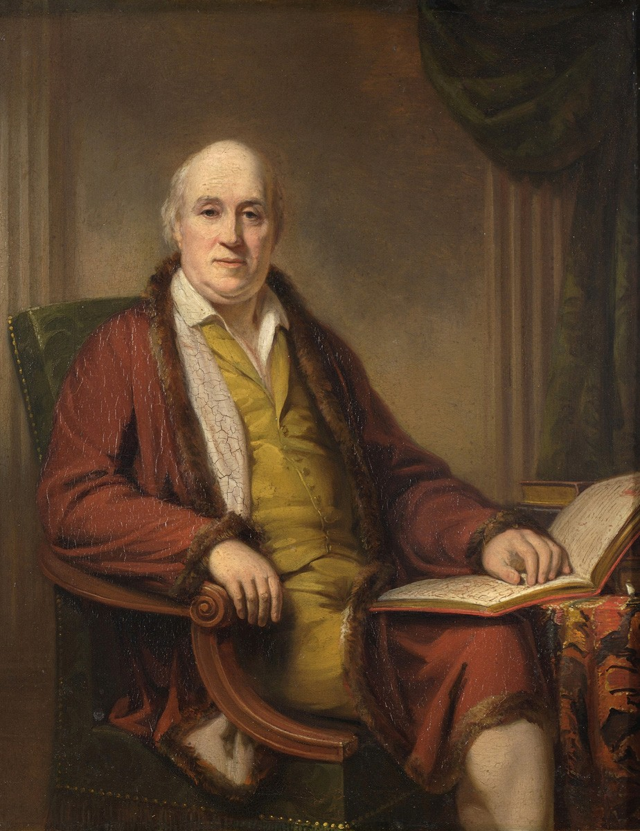 Richard FitzWilliam, 7th Viscount FitzWilliam, founder of the Fitzwilliam Museum.